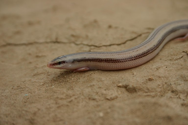 Ophiomorus nuchalis at Central Kavir protected area, Iran